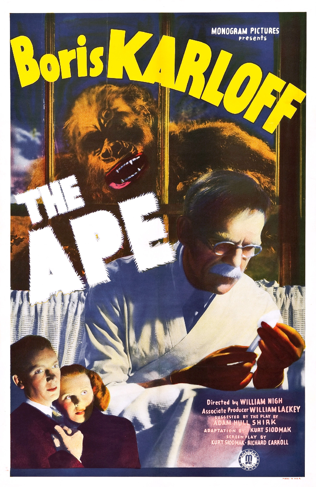 Poster for the 1940 film The Ape with Boris Karloff, Ray Corrigan, Gene O'Donnell, and Maris Wrixon. The item has no copyright marks on it as can be seen at links and upload. At bottom right is Made in USA.